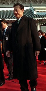 South Korean President Kim Dae-Jung during a visit of George W. Bush in Seoul, February 20, 2002.